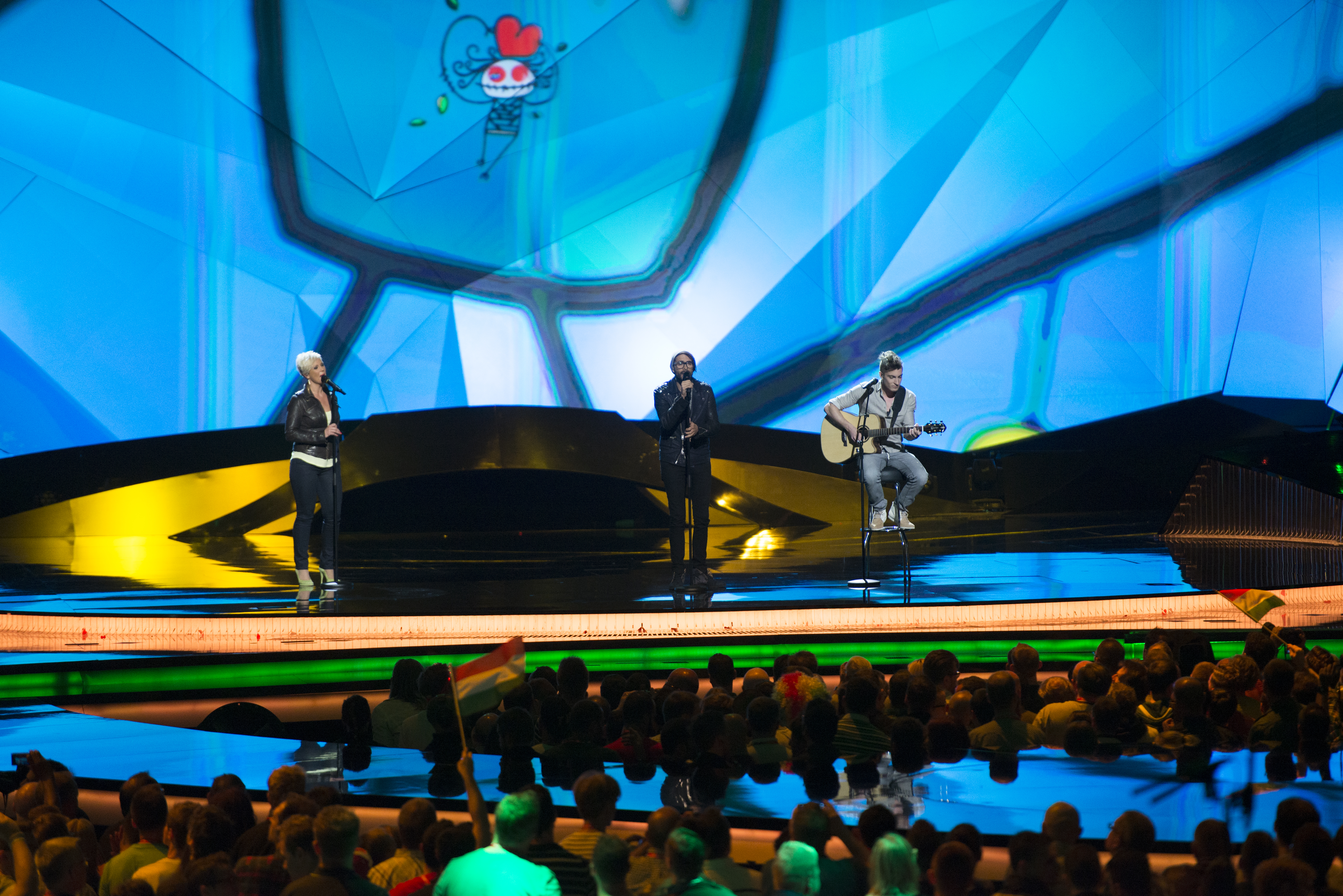 ByeAlex representing Hungary with the song "Kedvesem" (Zoohacker Remix) during the second dress rehearsal of the second semi final of the Eurovision Song Contest 2013 in Malmö. (Help translate this text)